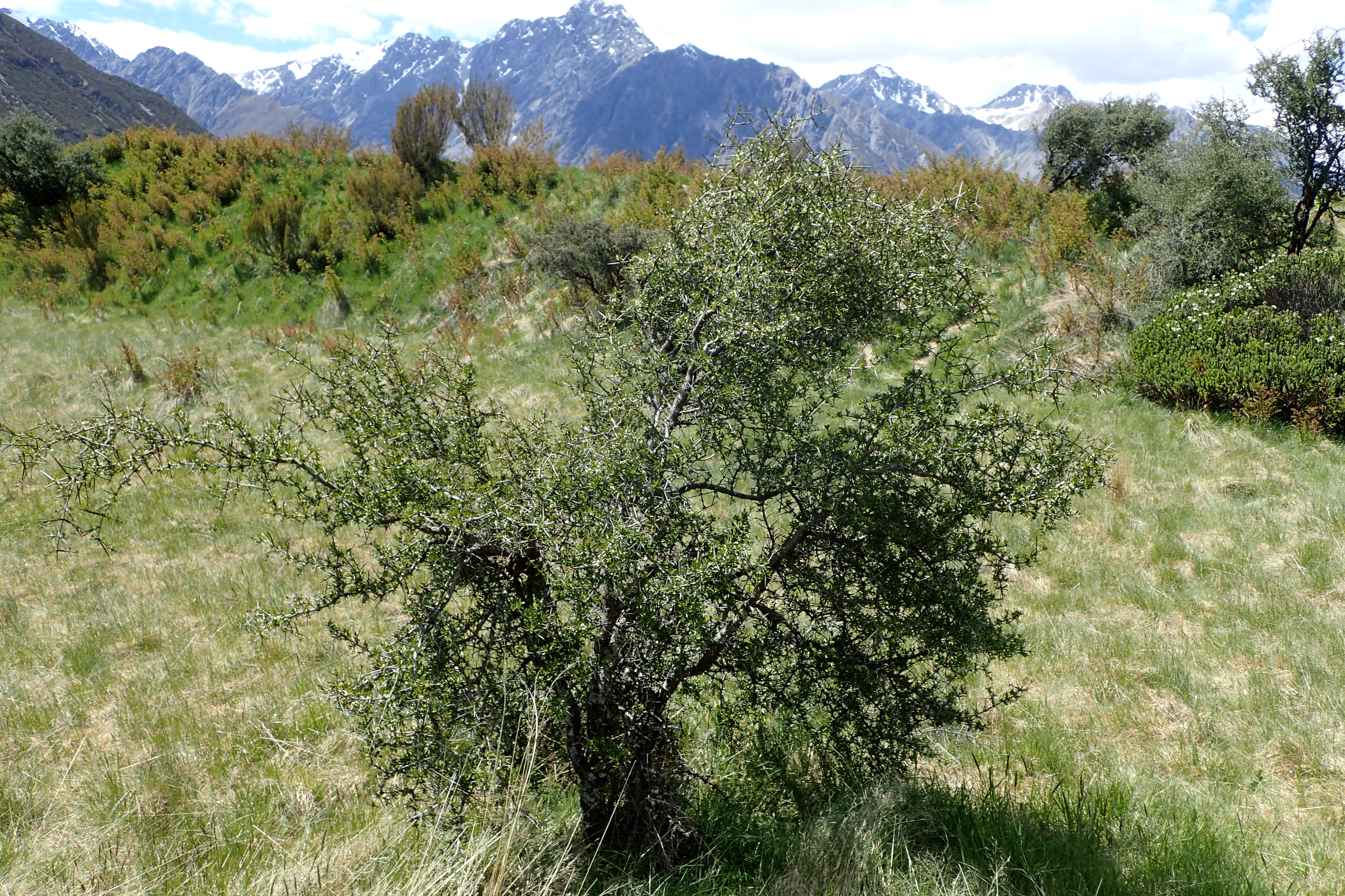 Discaria toumatou in Aoraki Mt Cook Village, Canterbury (New Zealand)